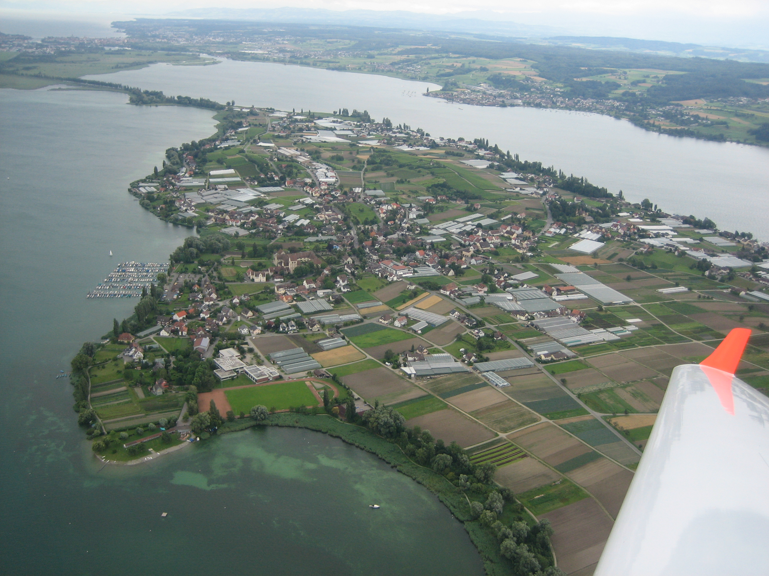 Aerial view of Reichenau Island